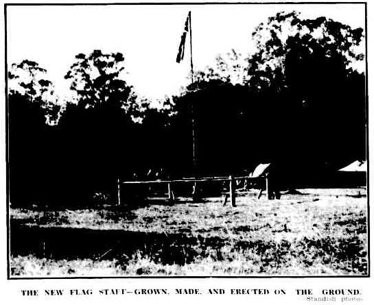 Newspaper clipping. Scout flagpole area, at Victoria Point, near Brisbane, Queensland, Australia. On the grounds of Eprapah. August 1928. Copyright has expired in Australia ( Boy Scouts' new training centre—Eprapah, near Victoria Point. The Queenslander (Brisbane, Qld. : 1866 - 1939), 9 August 1928, p. 38.